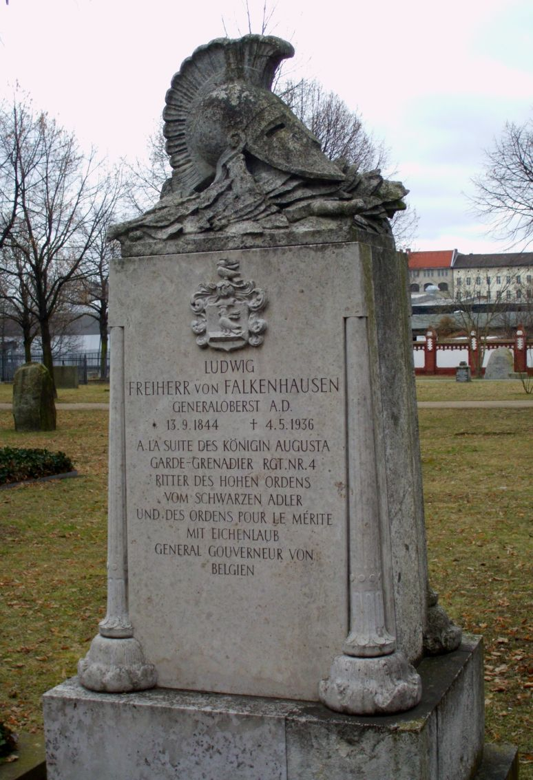 Gravestone of Ludwig von Falkenhausen